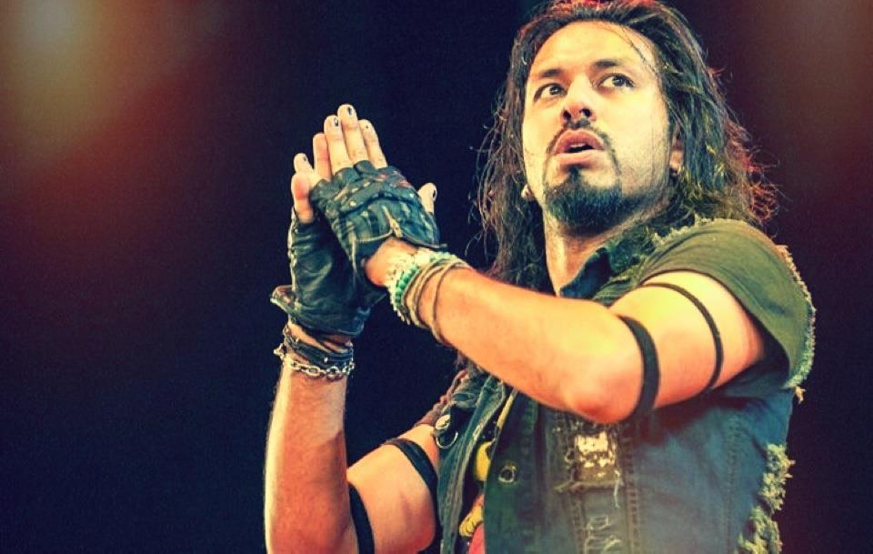 Leigh Kakaty performs during the Trespass America Festival at the PNC Pavilion at Riverbend in Cincinnati, Ohio August 2012.